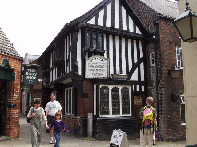 Chesterfield Shambles The mediaeval heart of the tow is the Shambles, with narrow lanes. One of the oldest buildings is the 'Royal Oak' pub with its distinctive jettied structure.